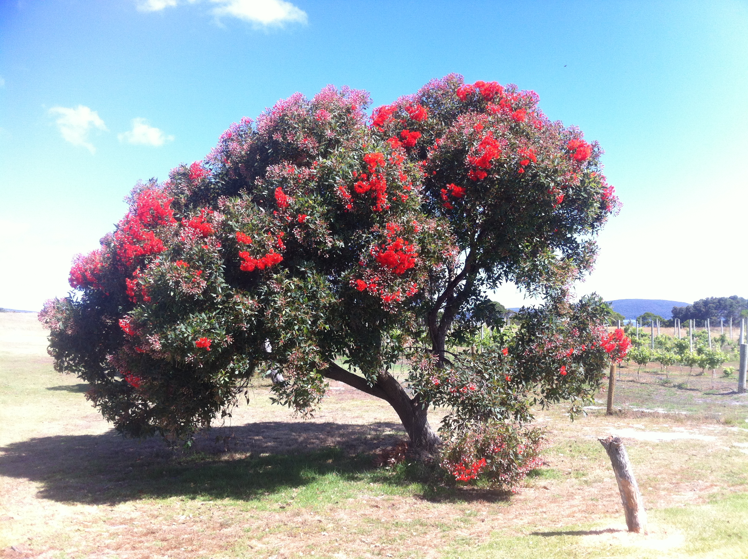 Corymbia ficifolia in Albany, Western Australia